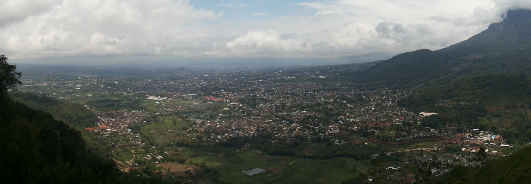 The view of Batu and Malang seen from Gunung Banyak.